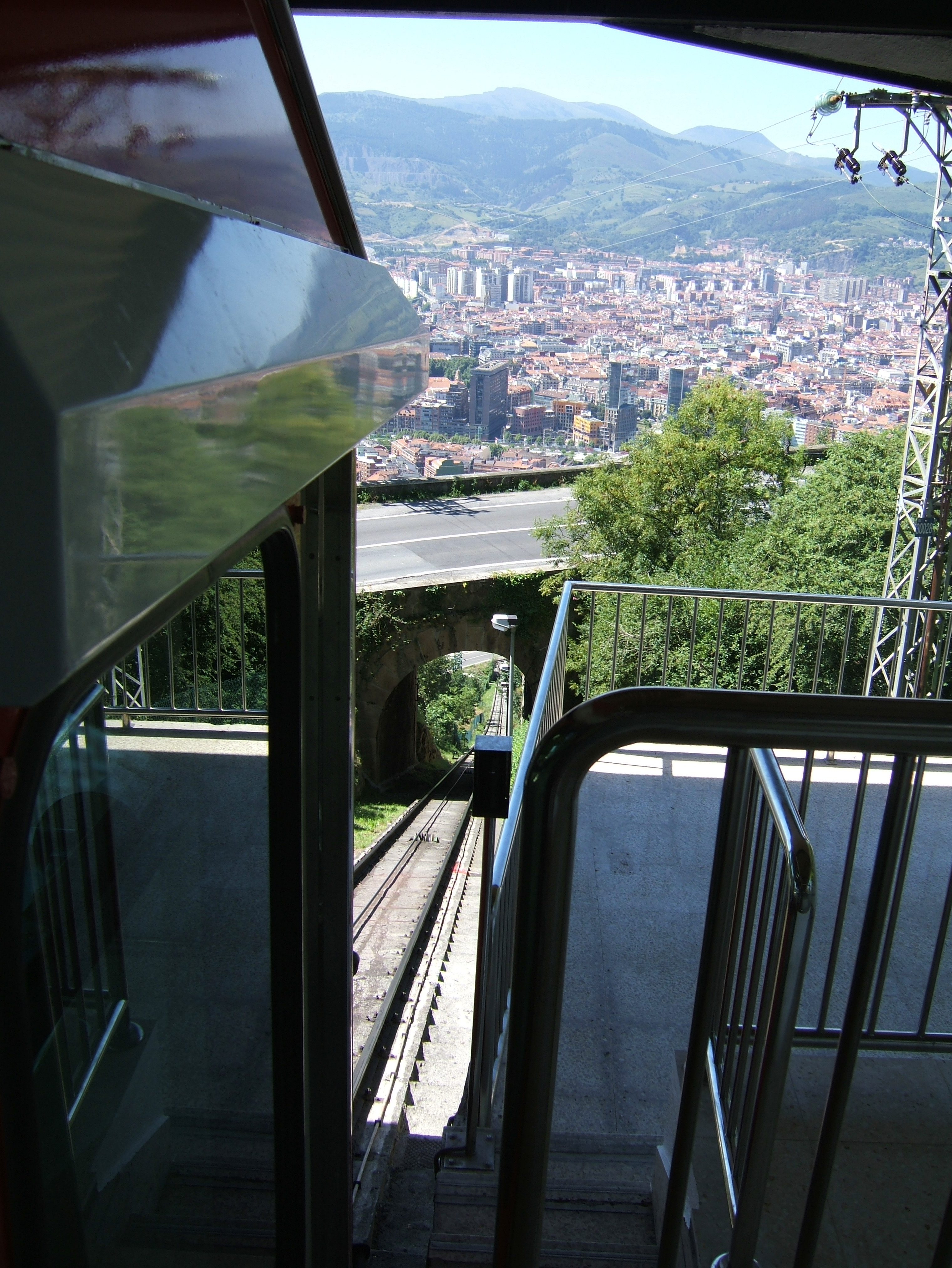 Funicular de artxanda, Bilbao. View from top station platform.